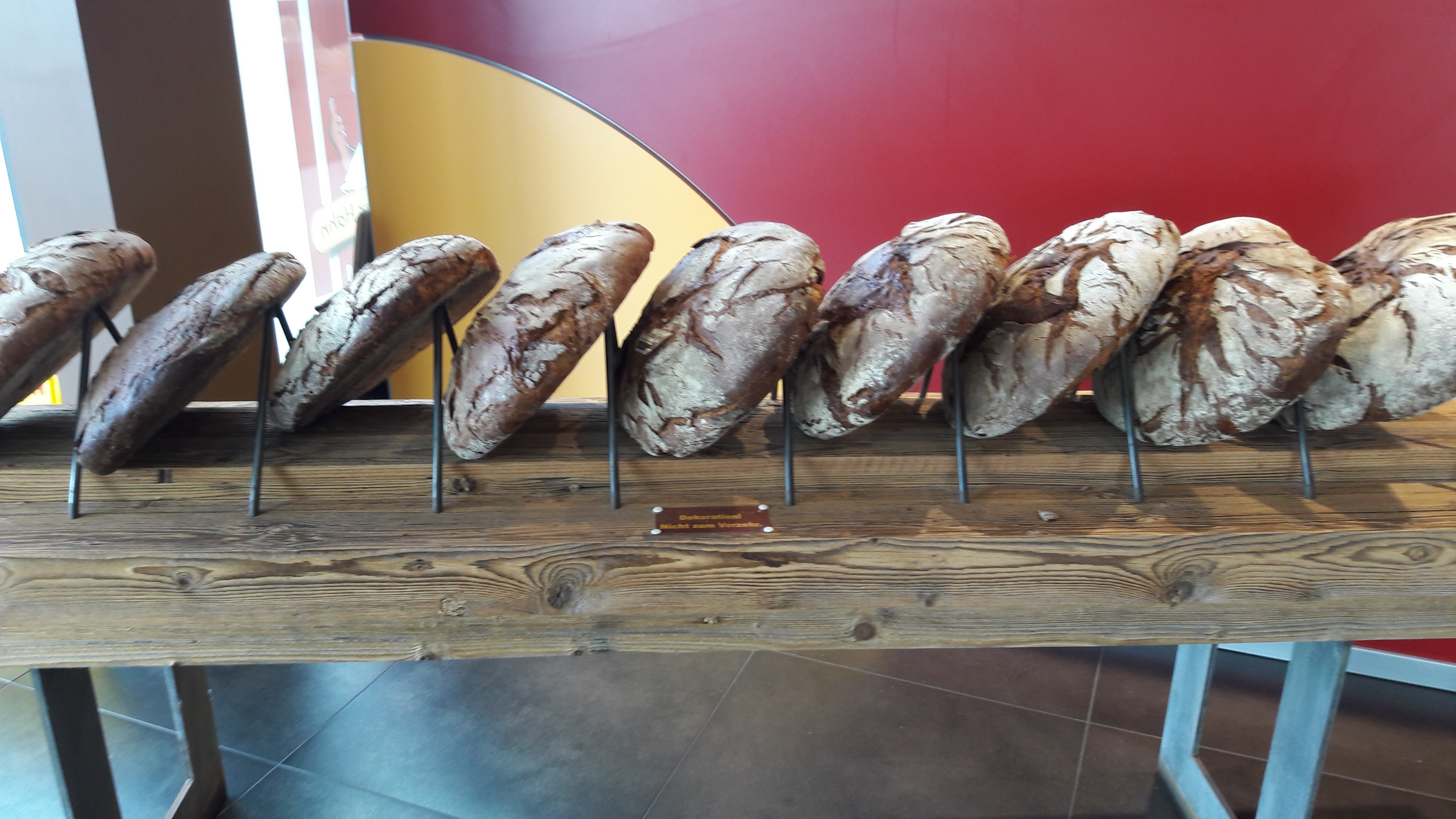 Array of bread